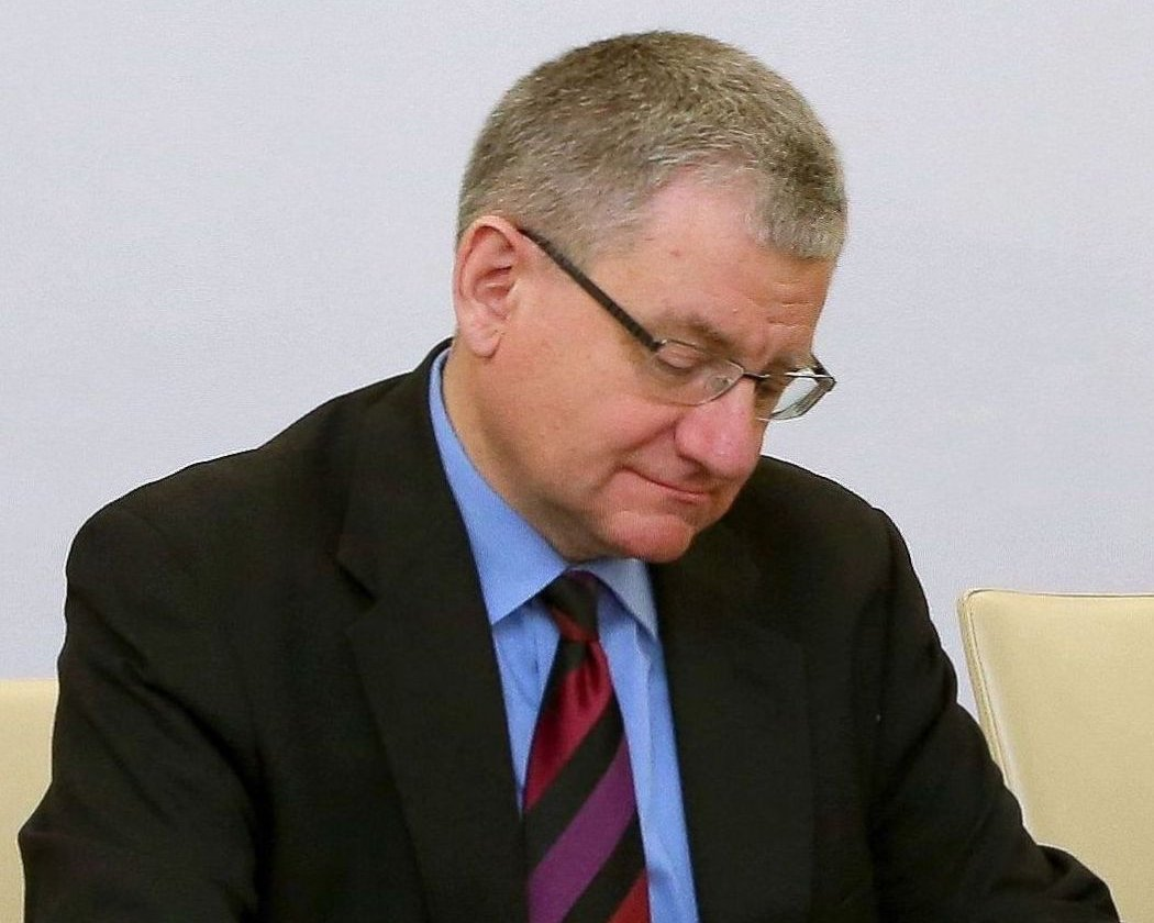 Bogusław Winid